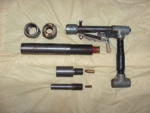 This is a very crude yet functional homemade gun made by a man in India. It is constructed mostly out of plumbing material.